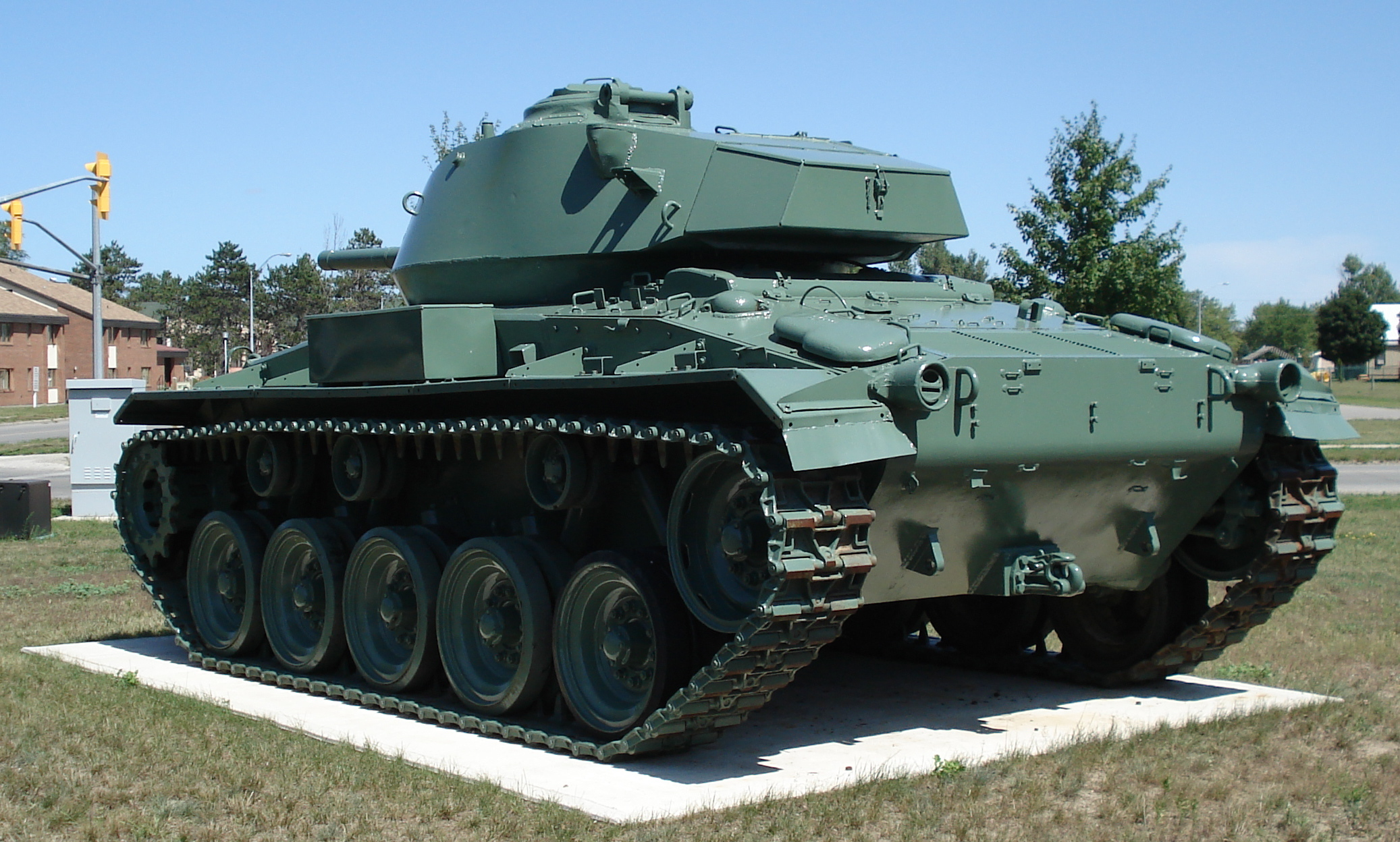 M24 Chaffee light tank. This example is displayed on the grounds of CFB Borden (Base Borden Military Museum). Photo taken on August 12, 2006. Source: Photo by me, User:Balcer.